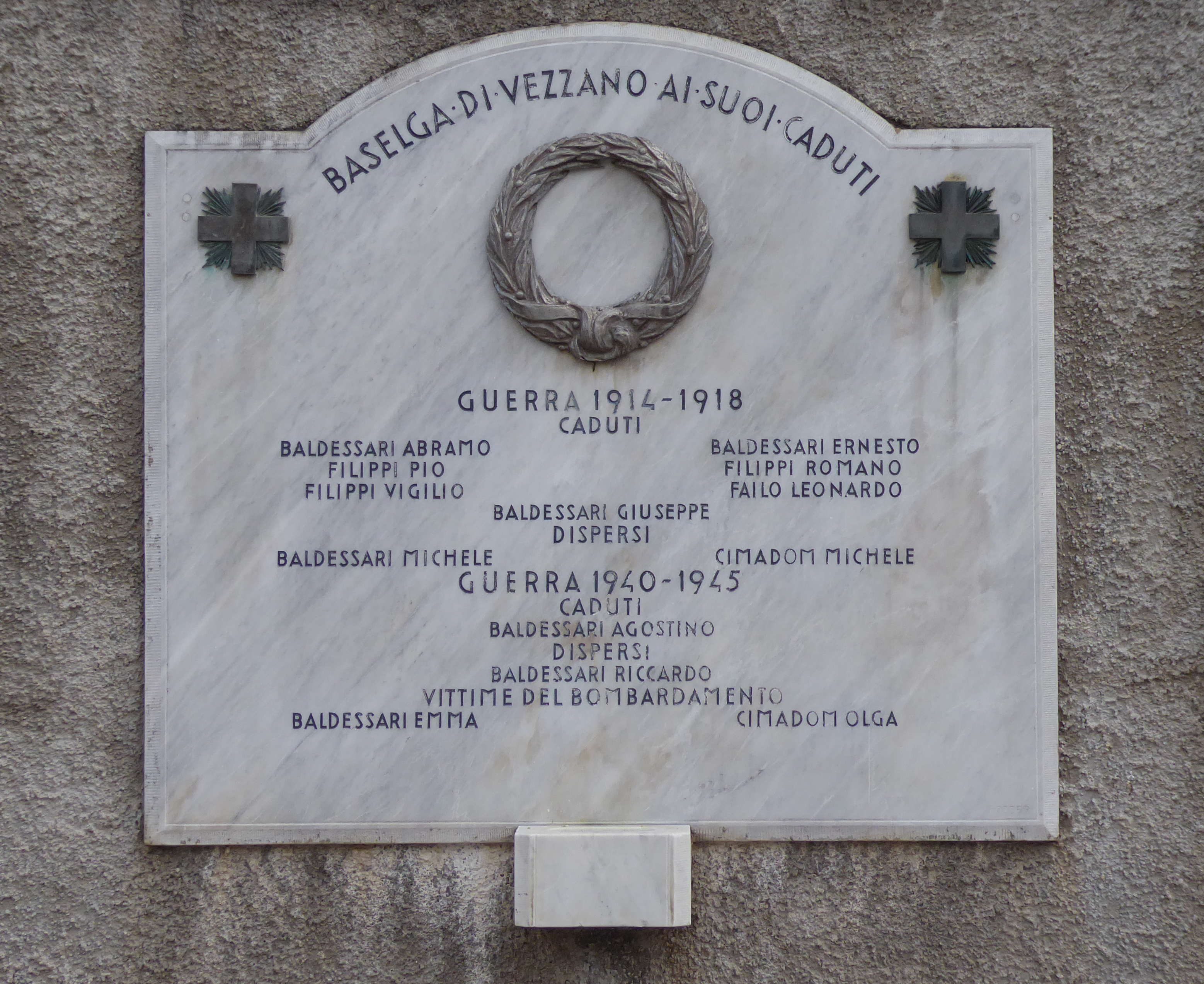 Baselga del Bondone (Trento, Italy) - Headstone for the fallen soldiers in the graveyard